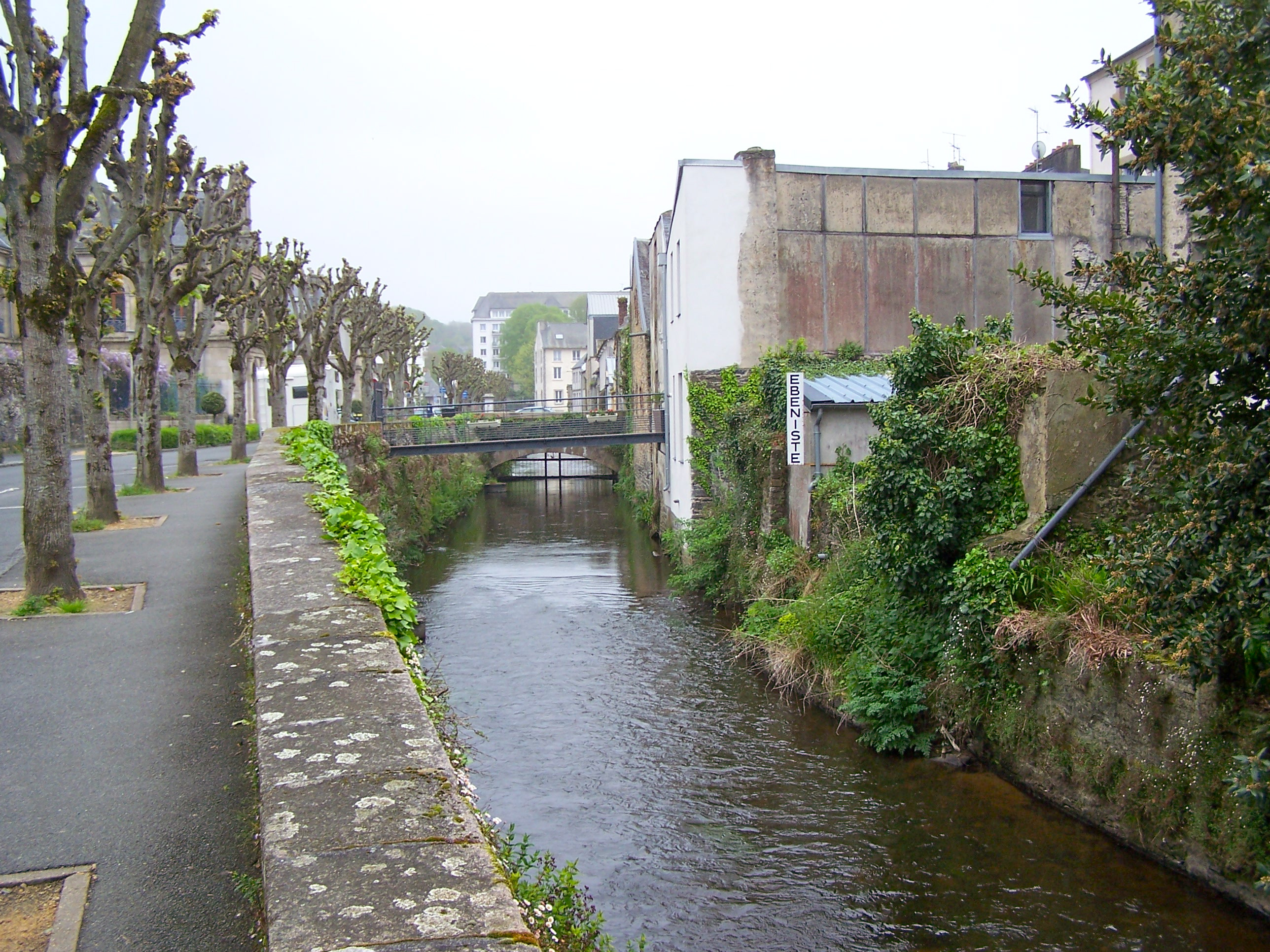 Vue de la rivière Jarlot à Morlaix